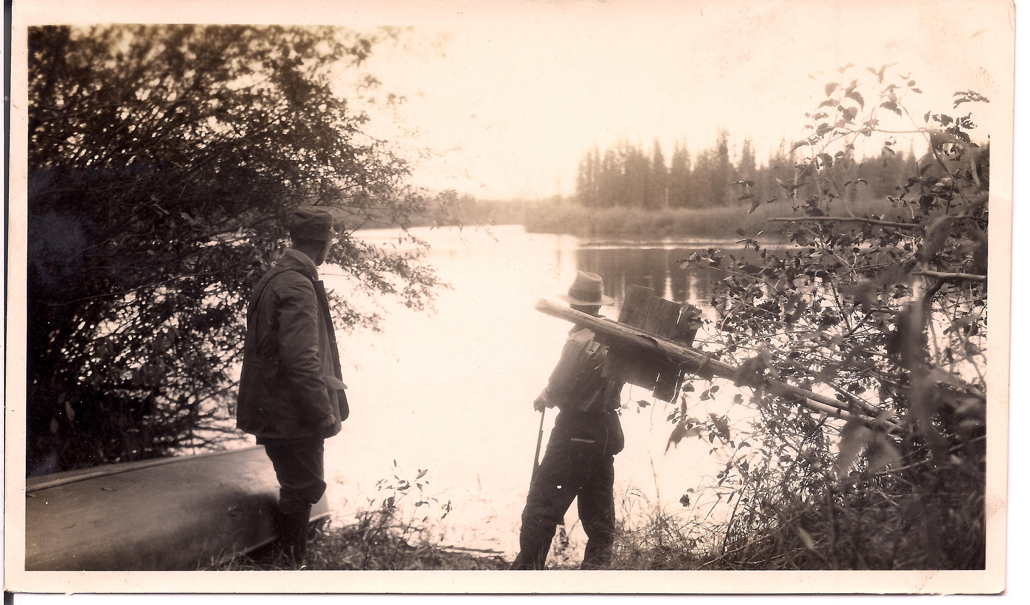 Dr. Karl Clark and guide Romeo Eymundson (son of Charles) on the back of the Athabasca River during one of Clark's oil expeditions, 1920s. From the Charles Eymundson fonds, PR2012.0927/31.